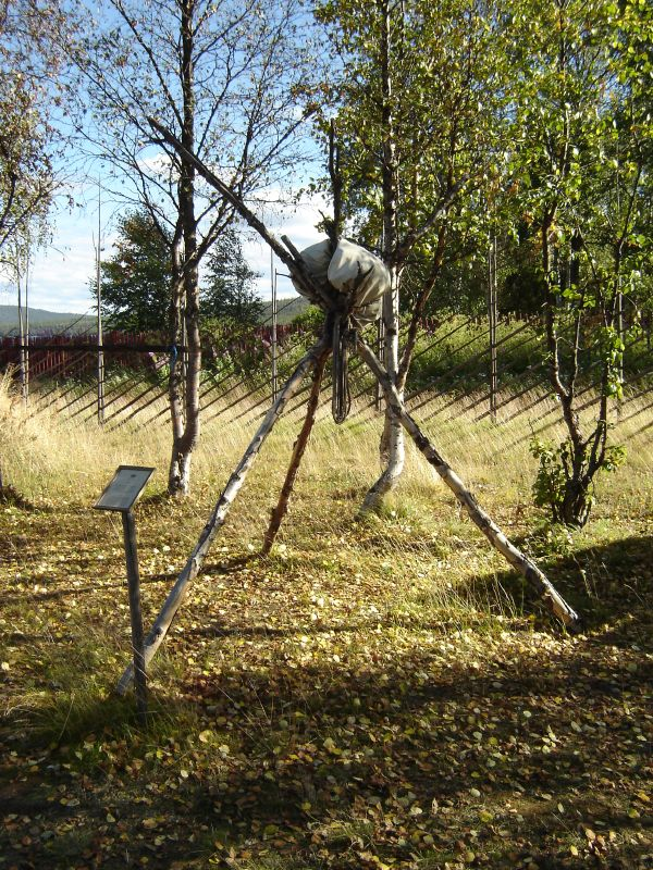 Wooden poles used to store food off the ground. Open air museum, Jukkasjärvi.